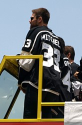 Willie Mitchell of the Los Angeles Kings at the Kings' 2012 Stanley Cup victory parade in downtown Los Angeles. This photograph was taken with an Olympus E-510 DSLR camera and edited (brightness and contrast) using ArcSoft Photostudio 5.5